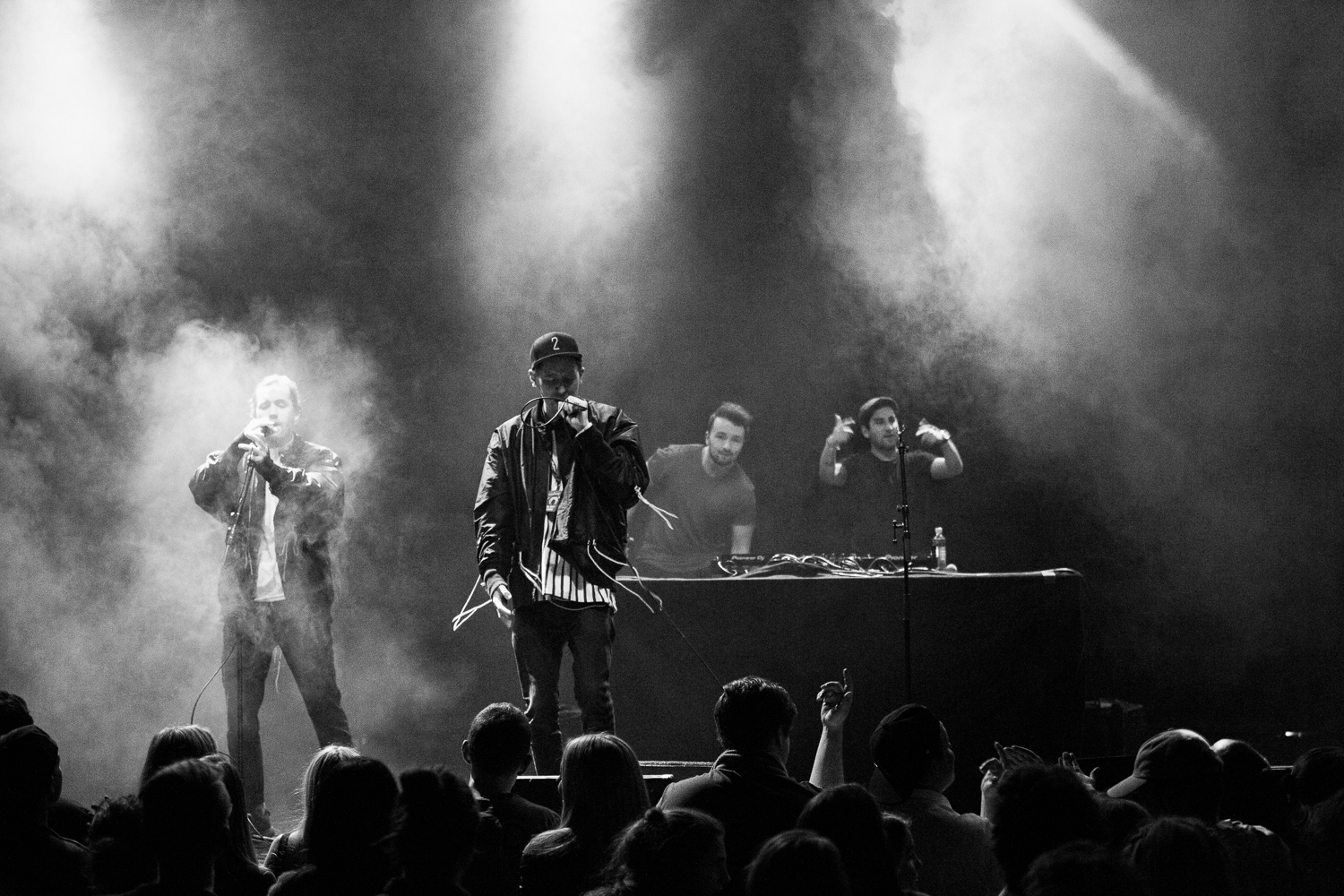 TRXD performing at by:Larm 2017